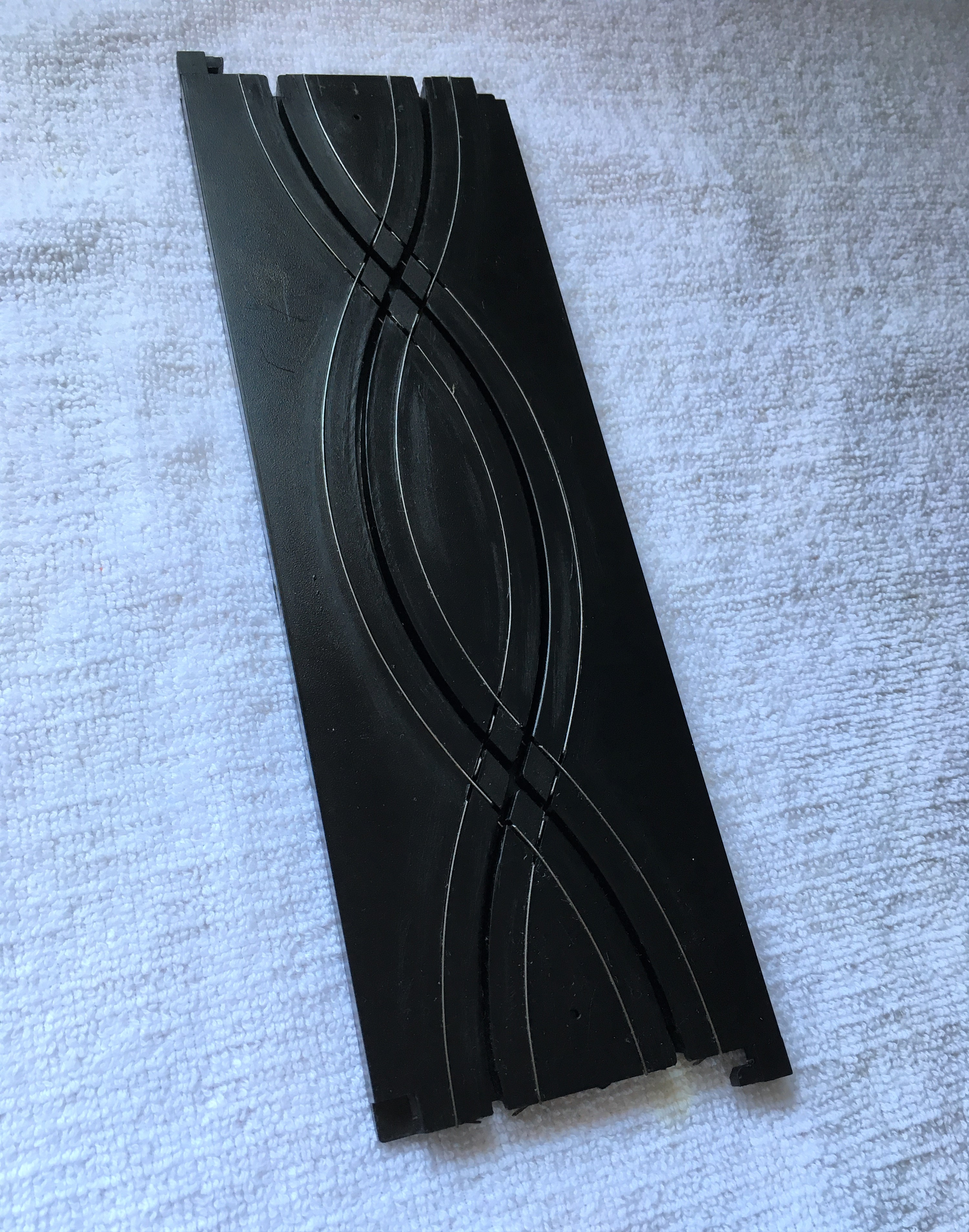 AFX 9" Double cross track